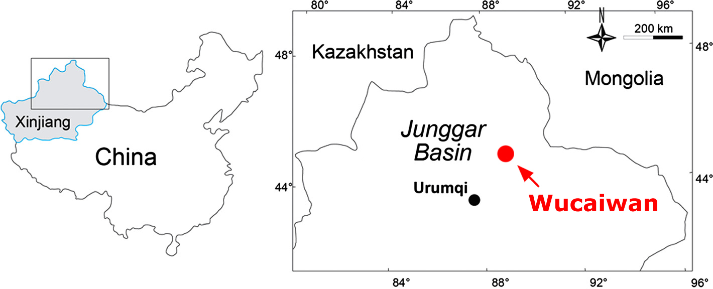 The geographic location of the Wucaiwan locality site in the Junggar Basin of Xinjiang Autonomous Province, China. Modified from a figure that instead showed the “Turtle Cliff” site in the Turpan Basin, based on:[